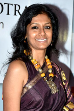 Nandita Das attend Manish Malhotra’s show The Walk of Mijwan, Apr 20, 2018